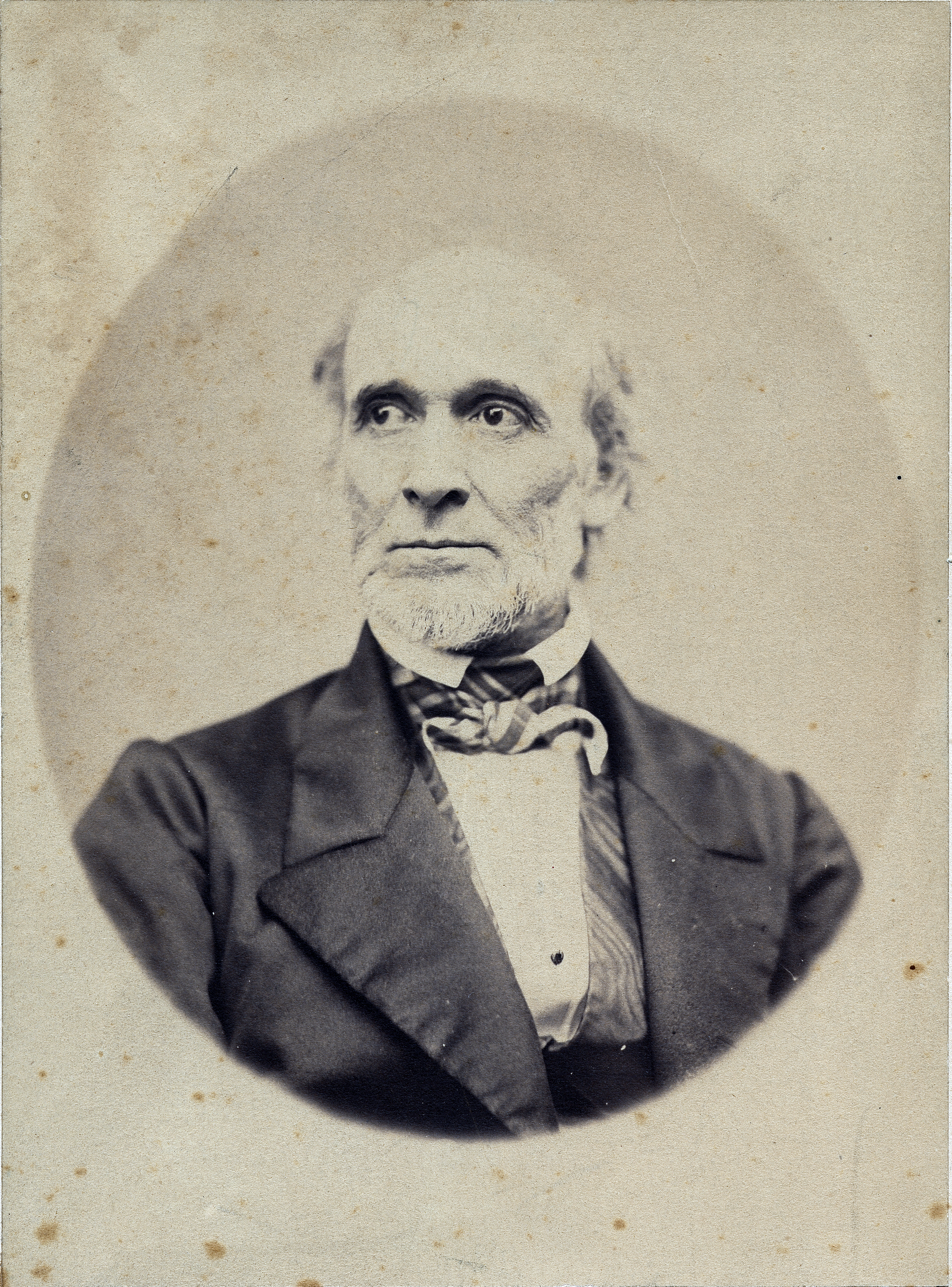 Hiram Powers, American sculptor